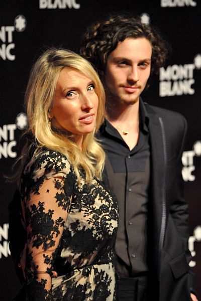 Director Sam Taylor-Wood and actor Aaron Johnson attend "To John - With Peace & Love" Global Launch Of The Montblanc John Lennon Edition on September 12, 2010 at Jazz at Lincoln Center in New York City. (Photo © Nick Stepowyj)